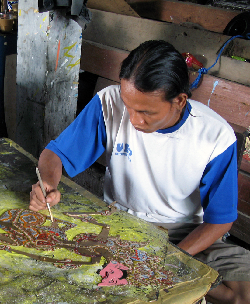 Painting Wayang Kulit, Yogyakarta, Indonesia.